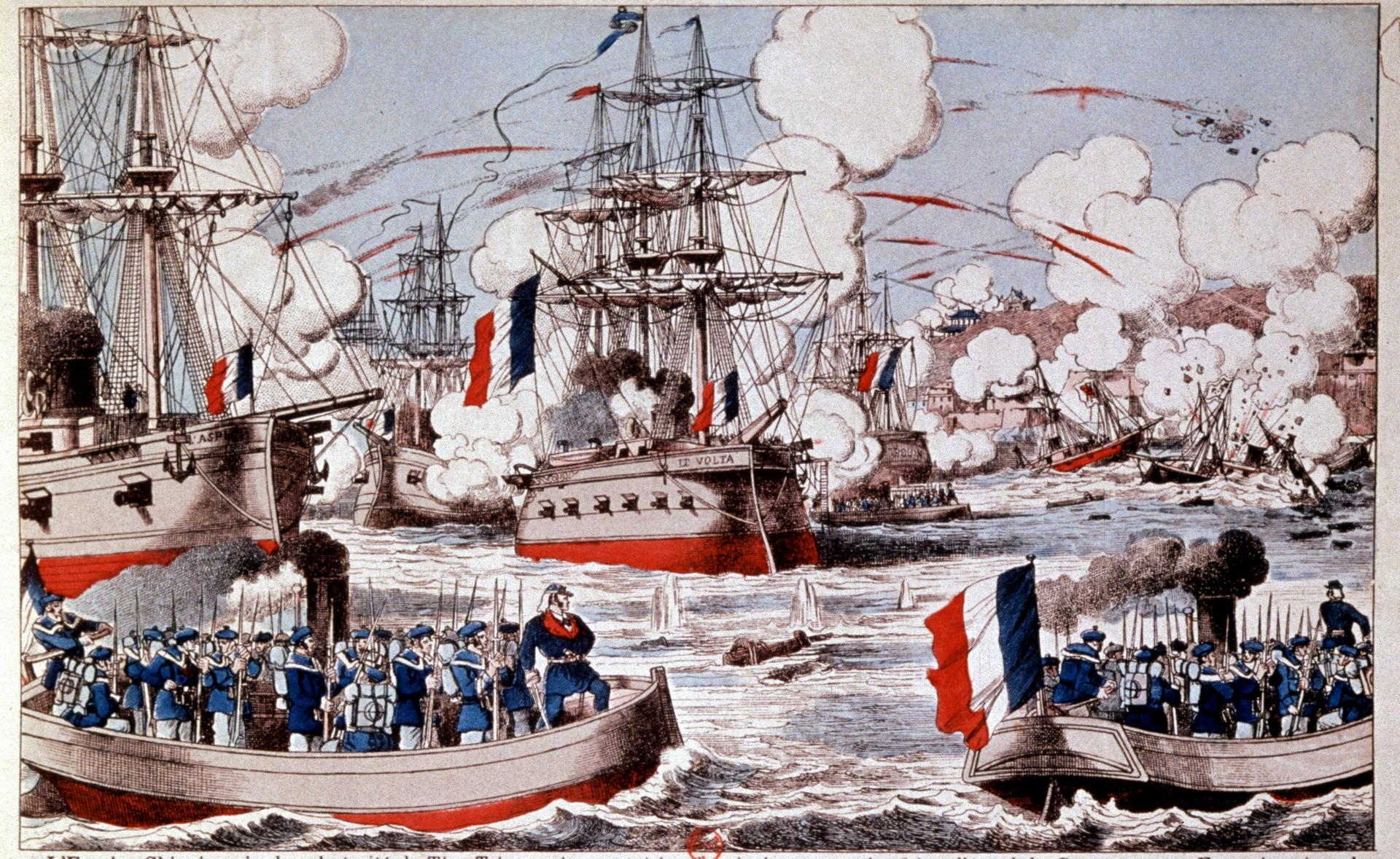 Bombardment of Foochow(Fuzhou) Arsenal, as part of Battle of Fuzhou. The caption reads: "The Chinese Empire which, in the treaty of Tien-Tsin, had shown the most outstanding bad faith towards the French Government, received the right price for its duplicity, and our brave soldiers who fell in the trap of Bac-Lé were victoriously avenged - the big Fou-Tchéou arsenal, where China had accumulated considerable war material, and where a Chinese fleet of twenty one was also stationed, some buildings have just been completely destroyed by the French fleet under the orders of Admiral Courbet. (...). Our naval glory has never shone brighter, and Admiral Courbet and our brave sailors, covering themselves with glory, remained the worthy emulators of the old sea-wolves once commanded by the illustrious Jean Bart."